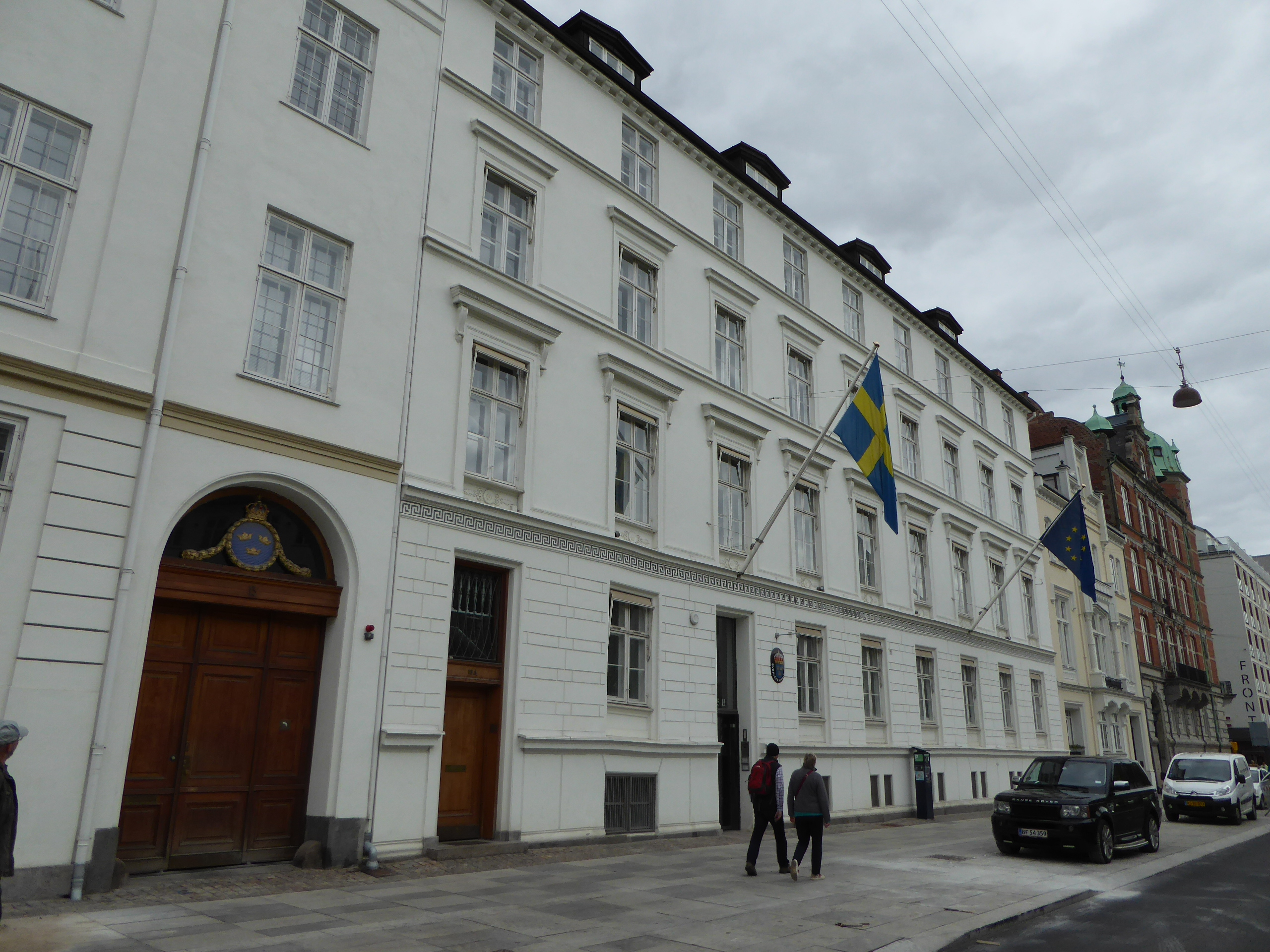 Embassy of Sweden at Sant Annæ Plads in Indre By in Copenhagen.